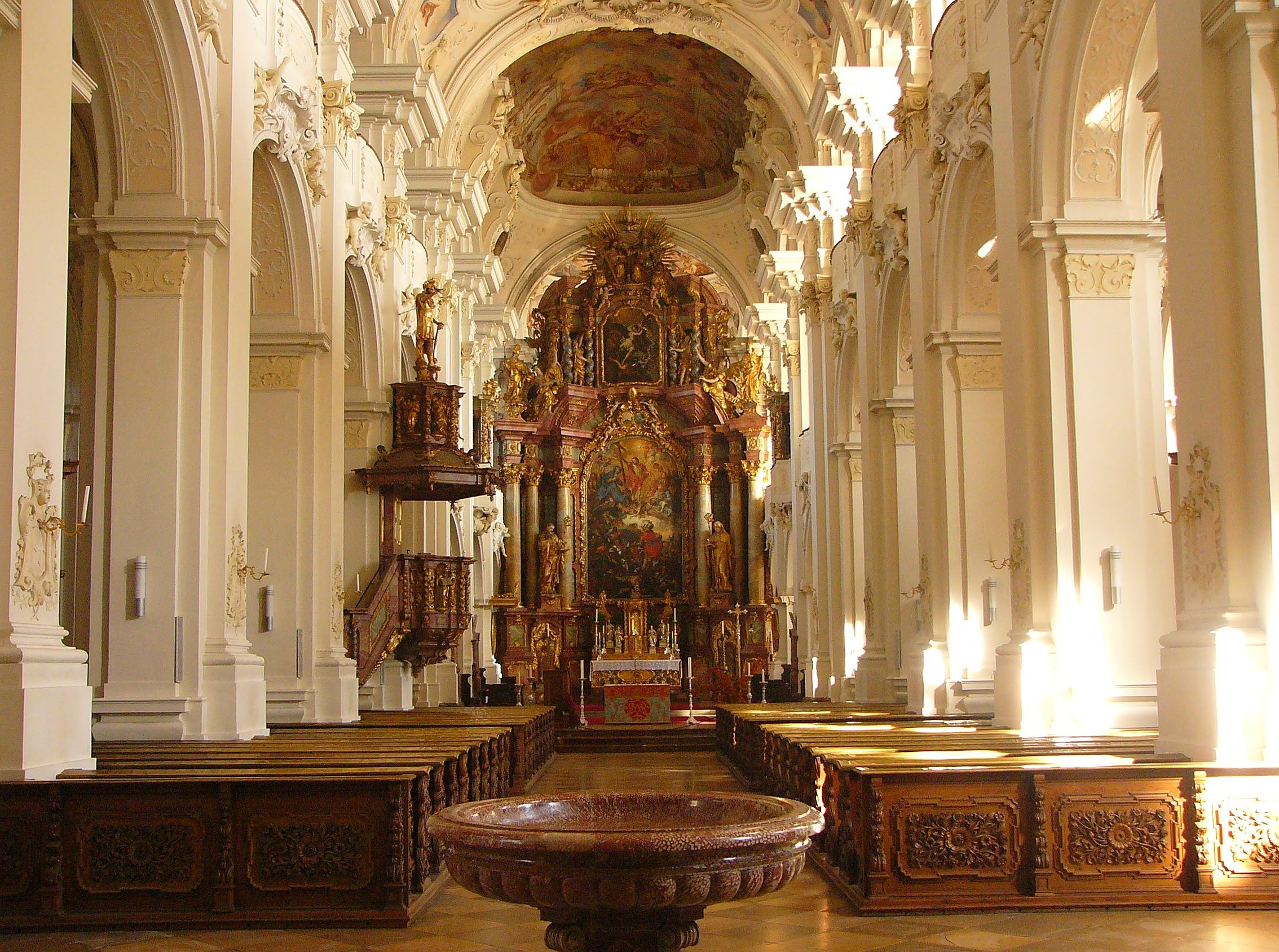 This is a photograph of an architectural monument.